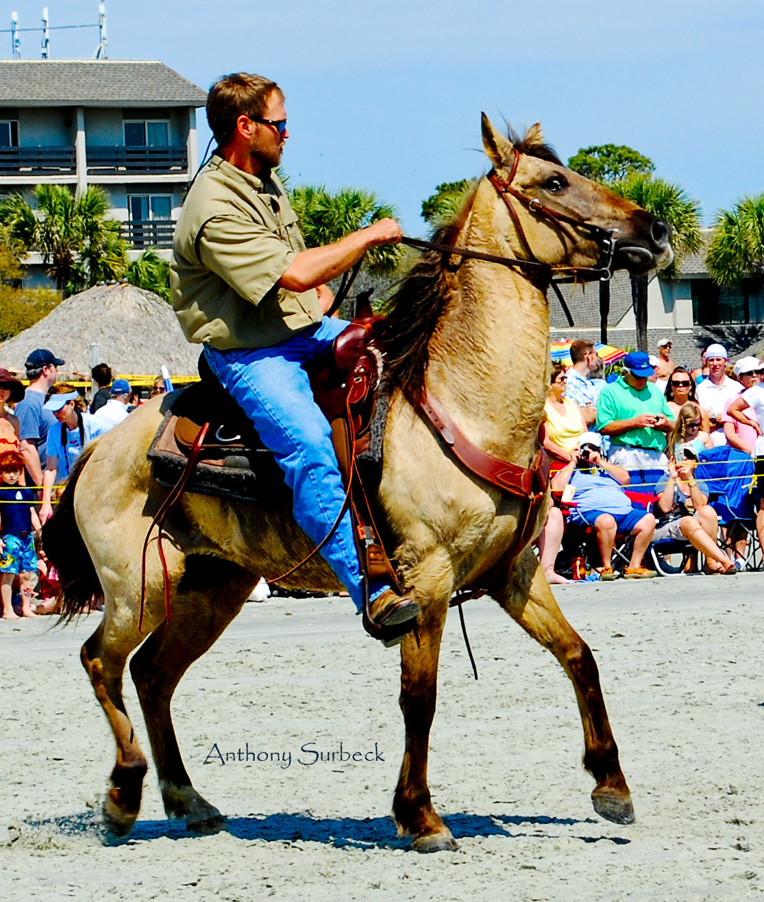 Carolina Marsh Tacky horse at Hilton-Head